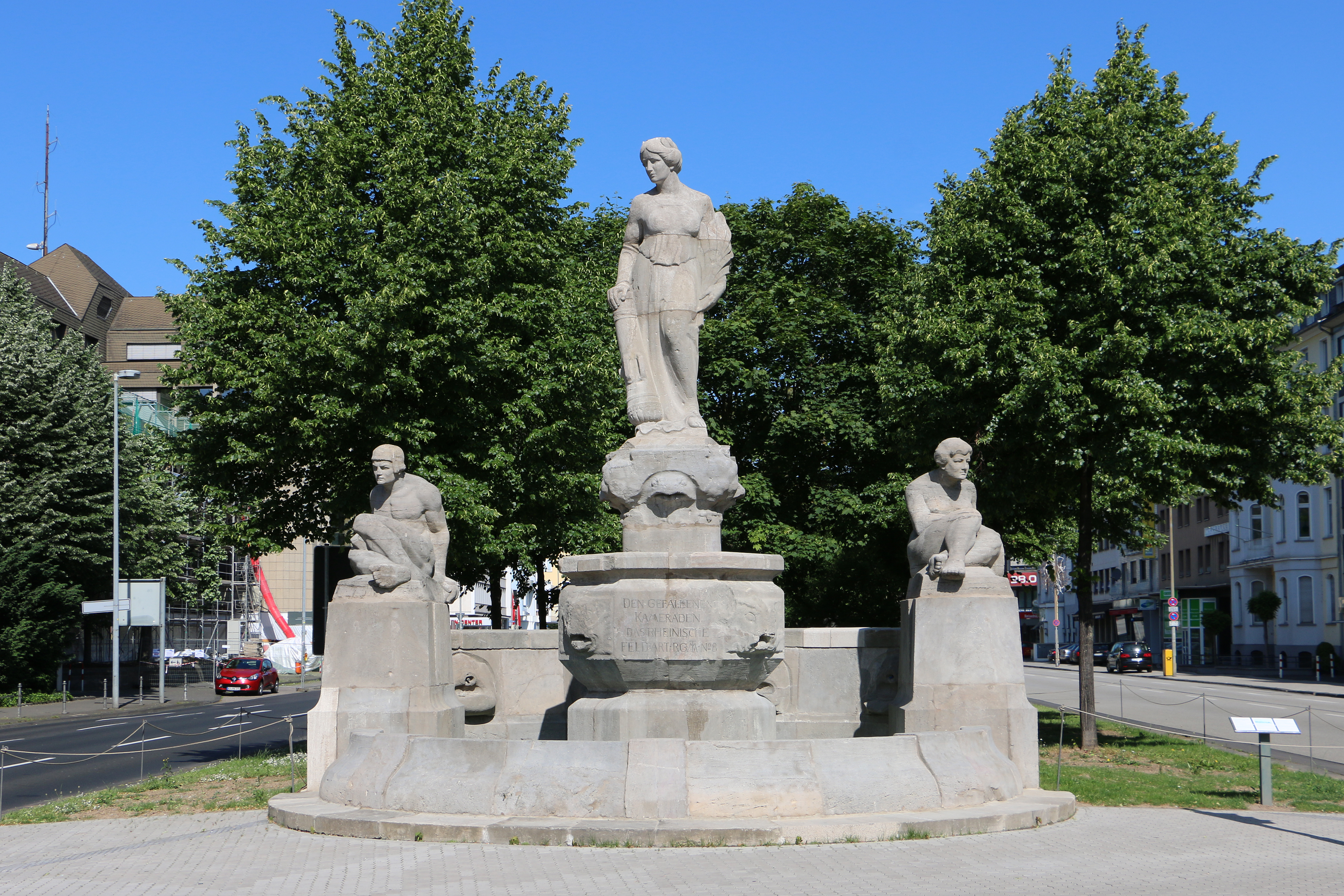 Barbara monument in Koblenz